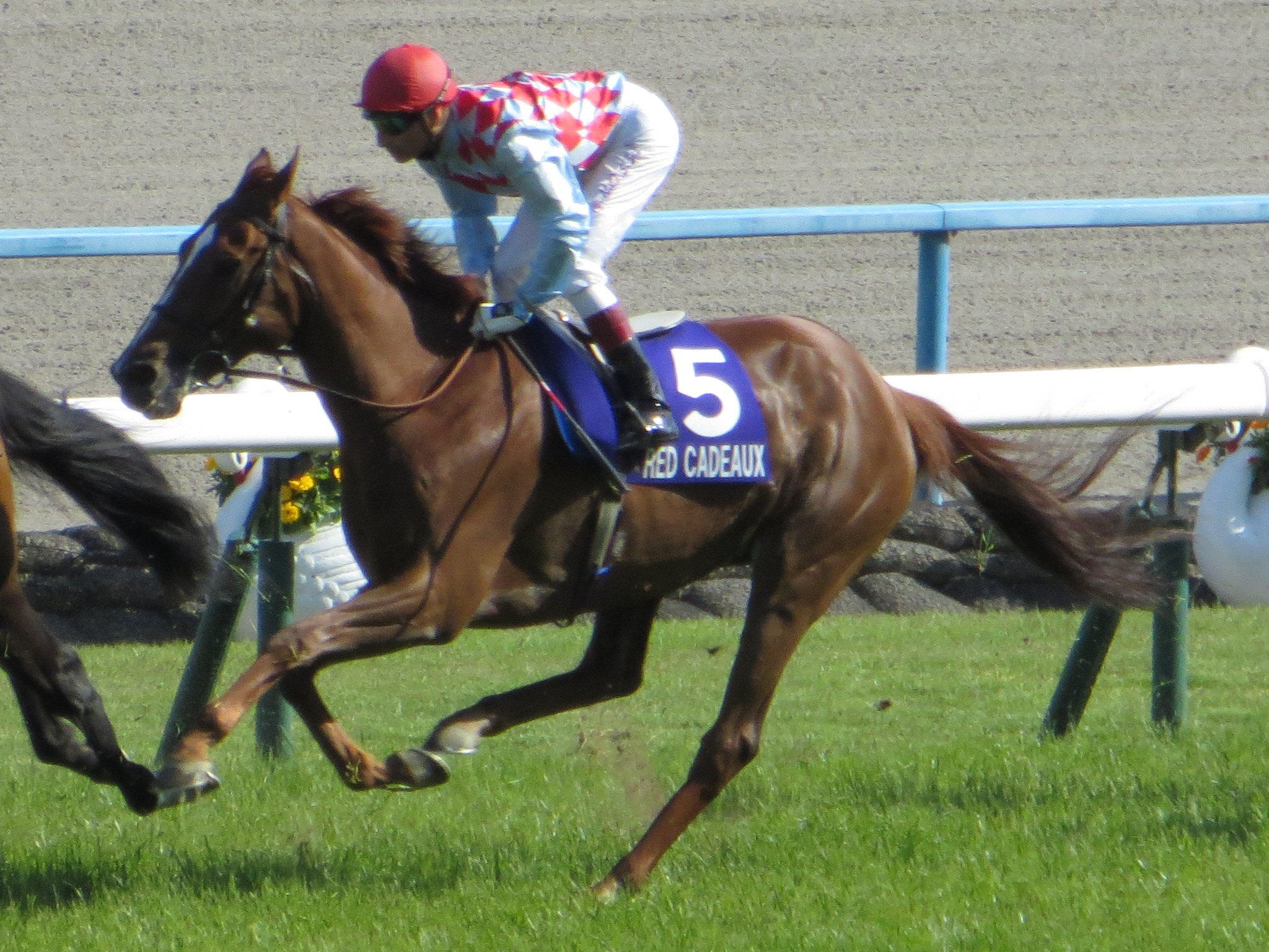 Red Cadeaux (from 149th Tenno Sho).